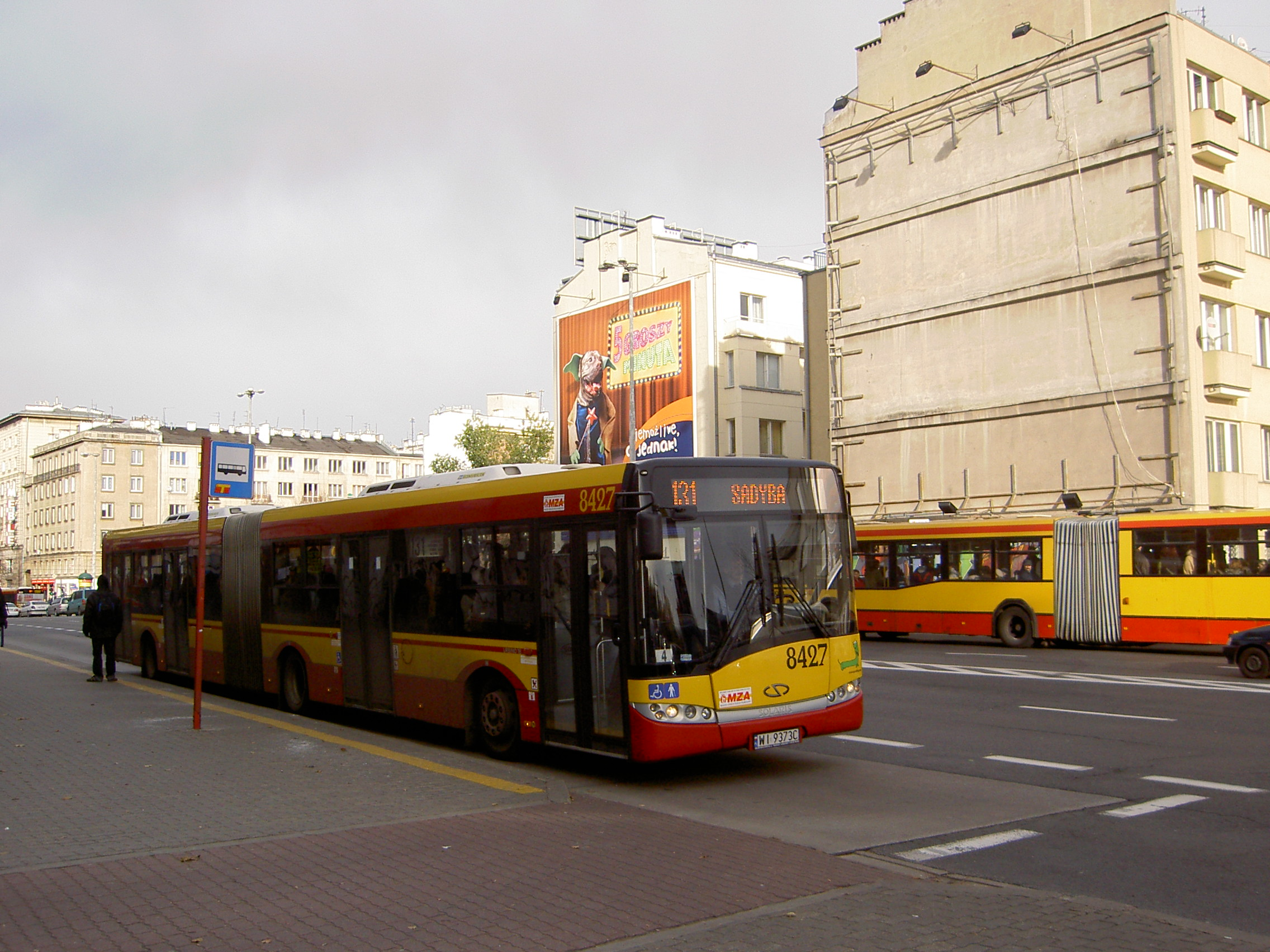 Solaris Urbino 18 bus (#8427) riding on line 131 in Warsaw. Built 2005. Picture taken by myself in november 2006.